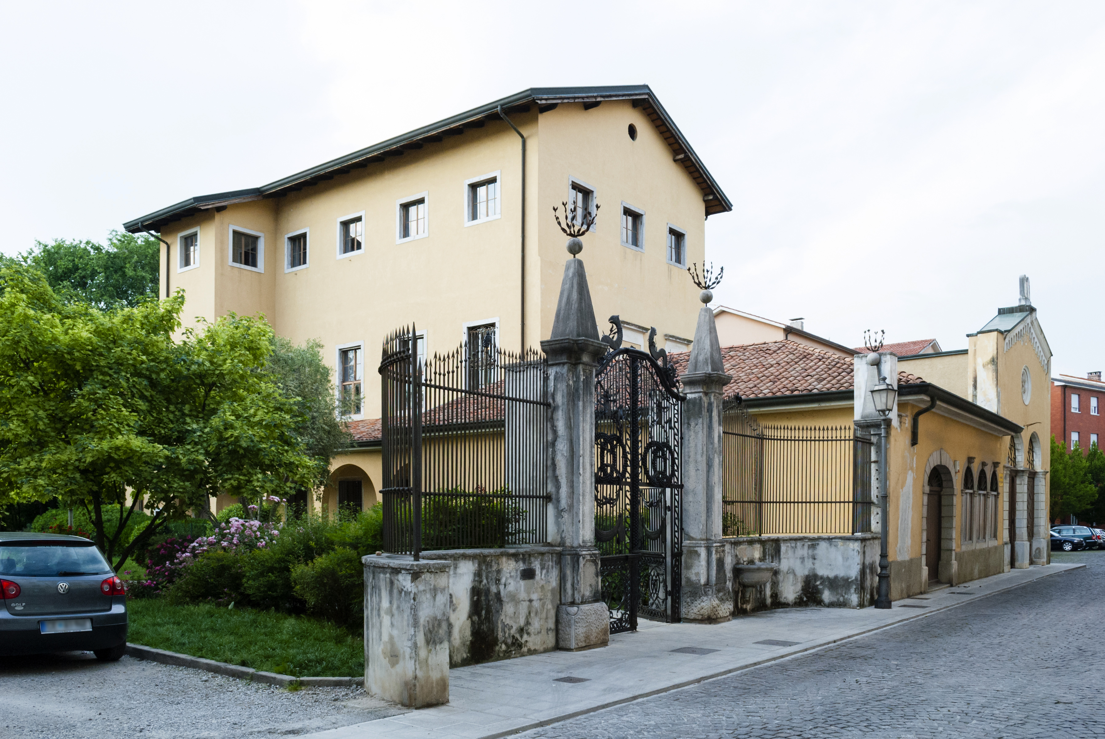 View of Synagogue of Gorizia.